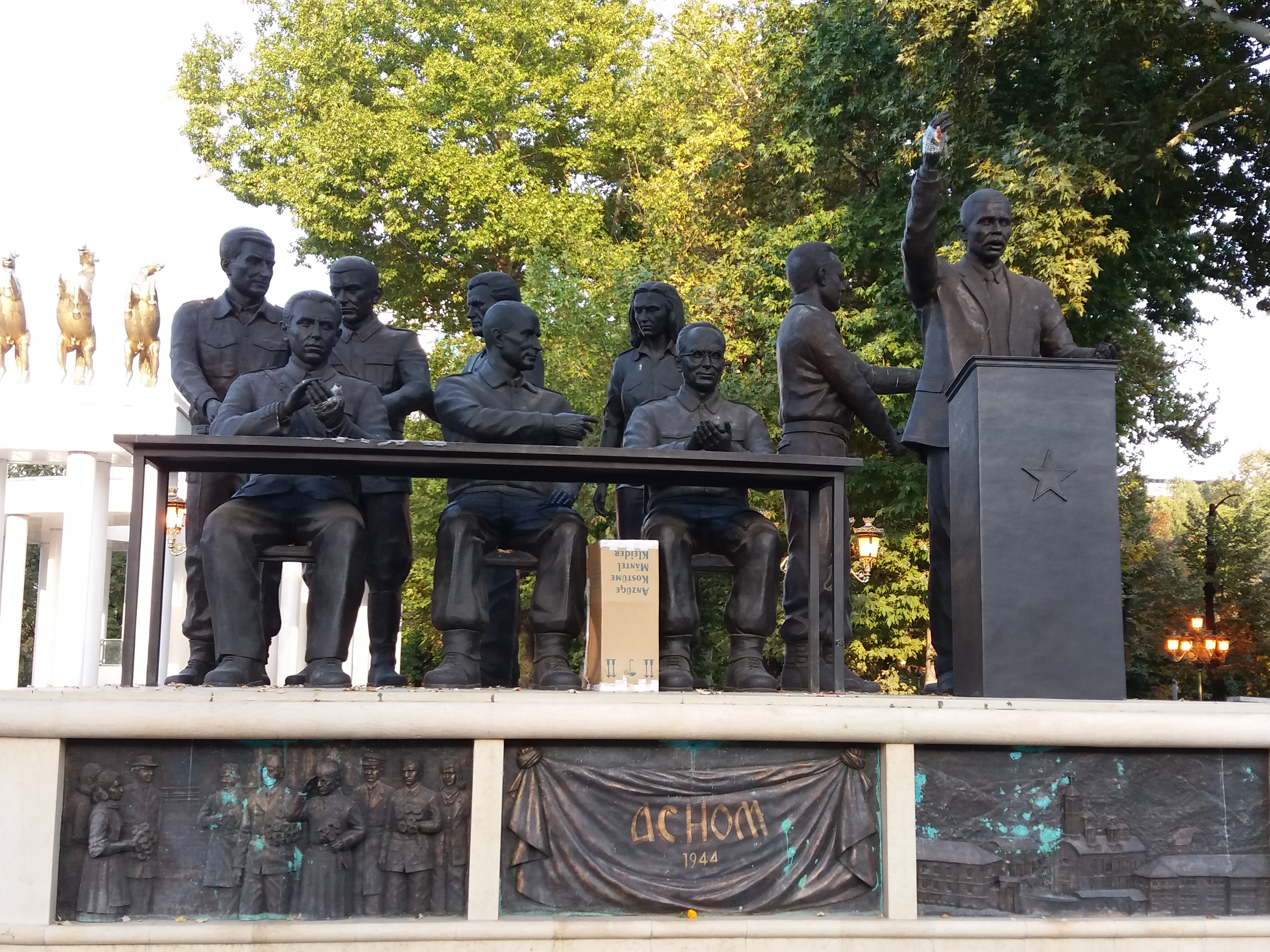 Statue of socialist leaders, Skopje, Macedonia.